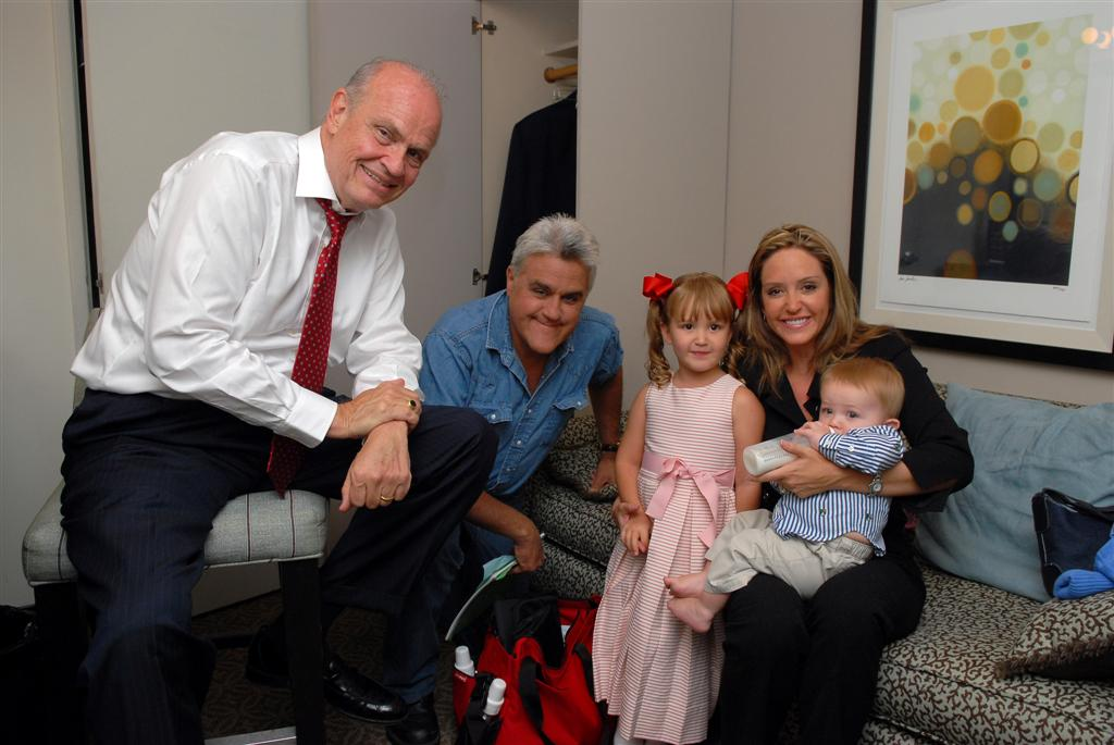 Thompson family with Jay Leno, on September 5, 2007.